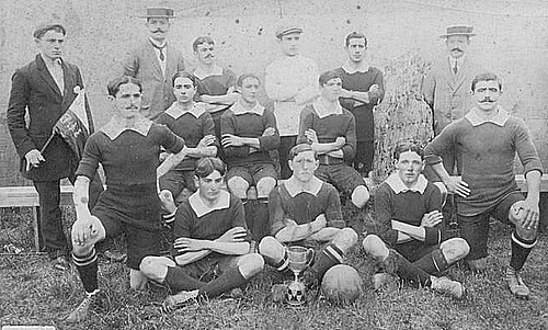 Club Independiente team that won the "Copa Bullrich" (2nd Division). Fltr (up): Florencio Romero (linesman), Aristides A. Langone (president), Juan Collazo, José Baruca Laforia, Manuel Deluchi, Carlos Degiorgi (secretary); (middle): Braulio Ibáñez, García, Chiarella; (down): Carlos Moretti, García, Amadeo Larralde (captain), Miguel Larralde, Balbino Ochoa.